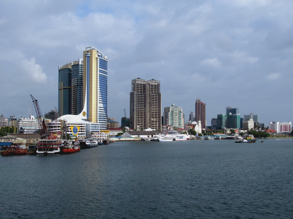 Increasing numbers of flashy highrise buildings financed by official agencies are popping up along the Dar es Salaam waterfront. A poor developing country, Tanzania still has plenty of money to spend on prestige projects.